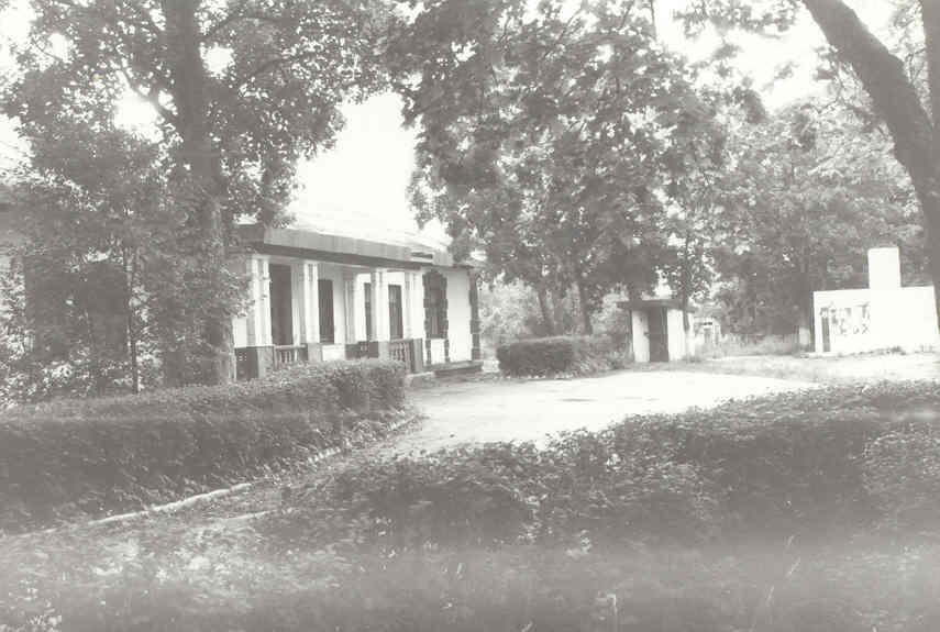 The mansion in Pasklep village in Noarootsi/Nuckö in Estonia. A picture from the summer 1993.